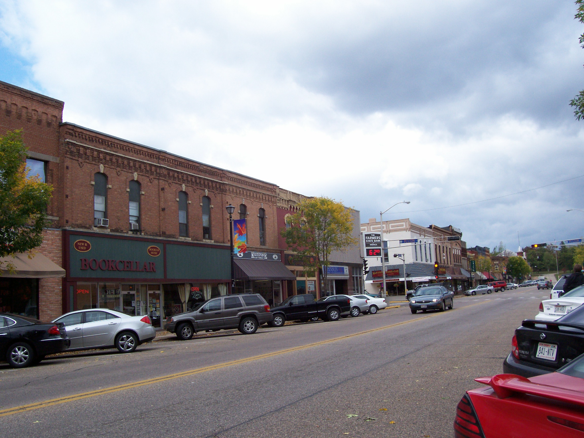 Looking northwest at part of the Main Street Historic District (Waupaca, Wisconsin) in downtown Waupaca, Wisconsin. There are signs noting that it was part of the Yellowstone Trail.